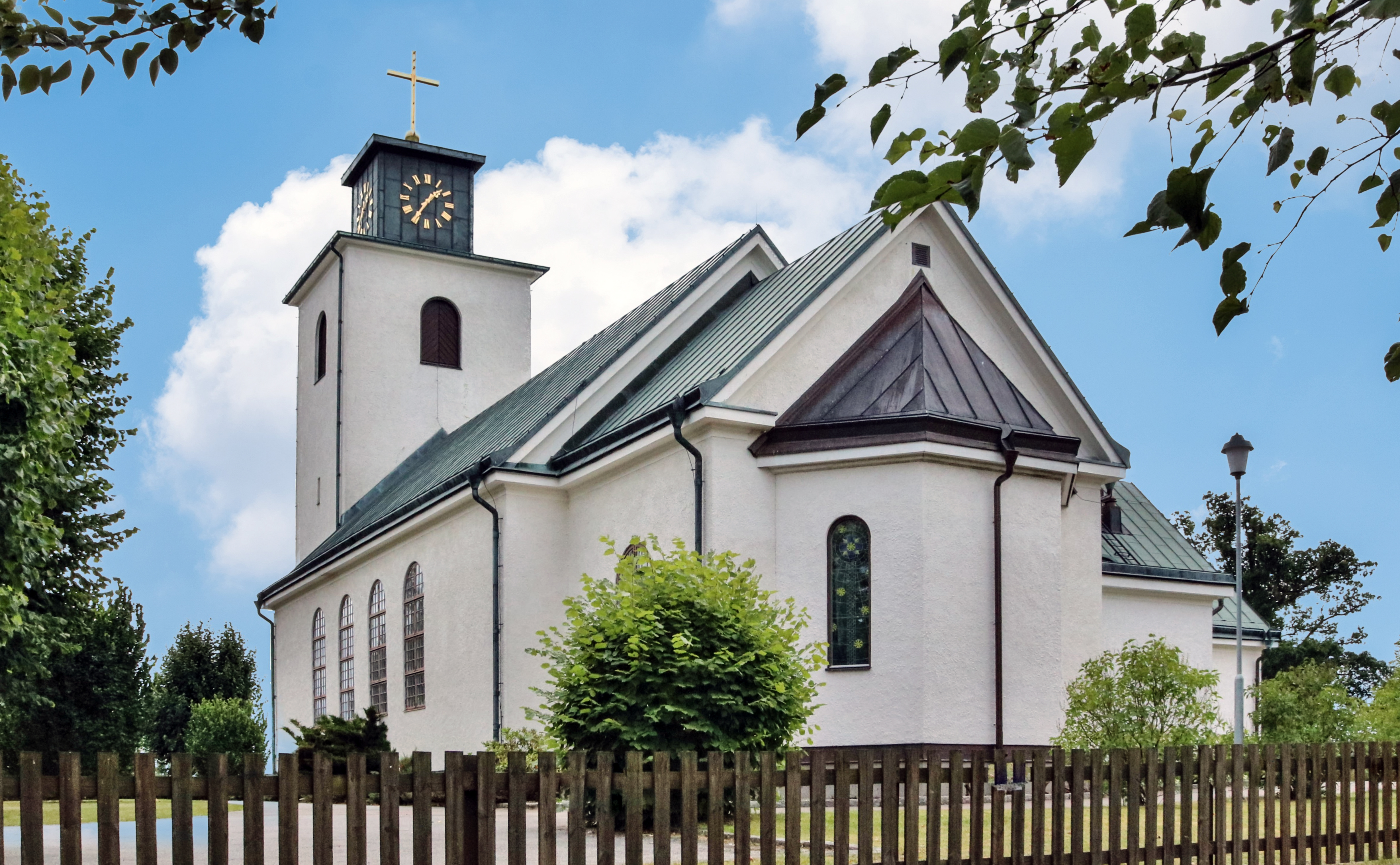 Emmaboda Church. The building was built in 1926 by architect George Pauli, and was initially a parish house. in 1941, a redevelopment, designed by architect Paul Boberg, when the parish house was converted into a church.